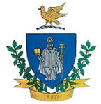 Coat of arms of Irota, Hungary